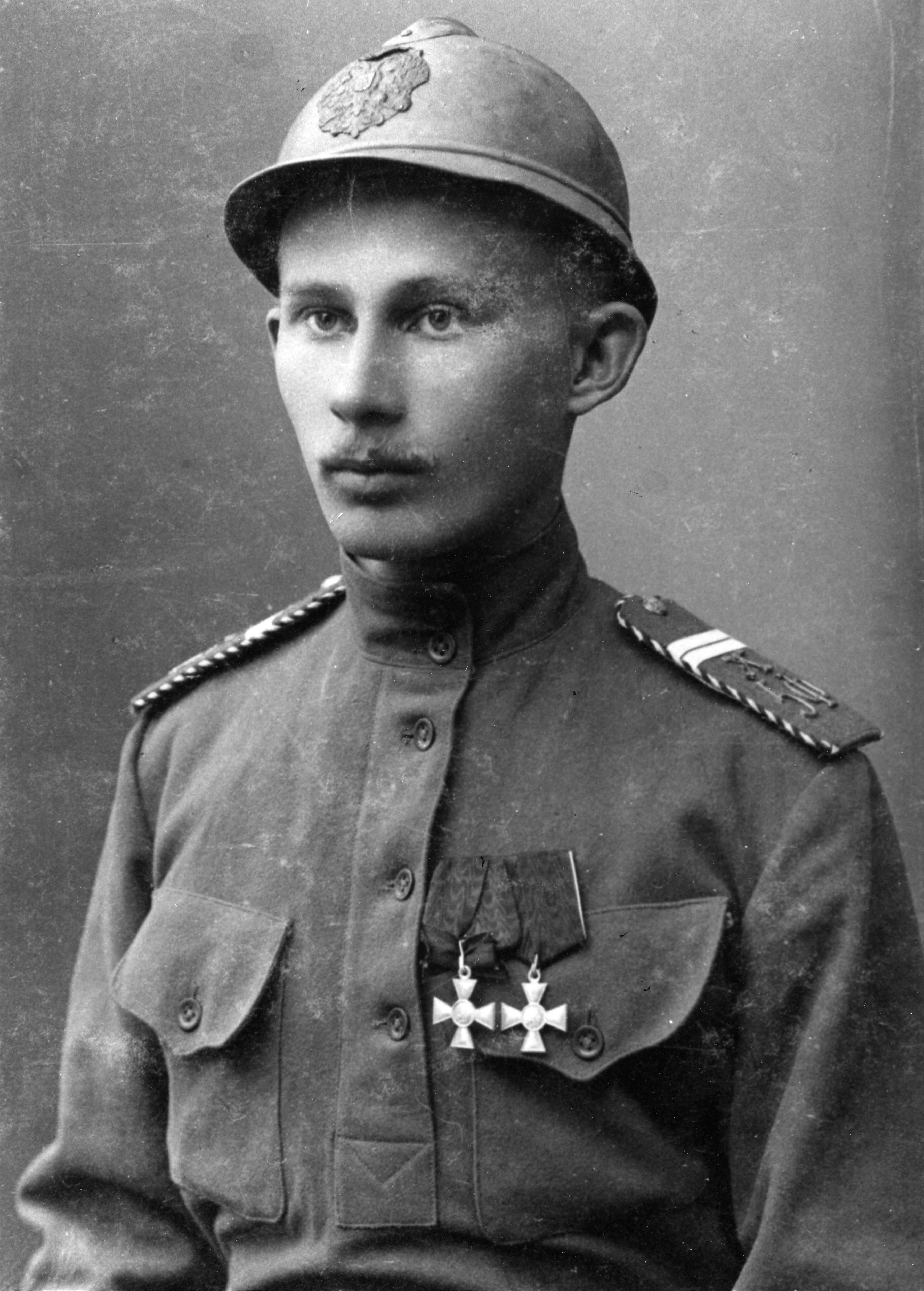 The leader of the reds during the Viena Expedition in East-Karelia.